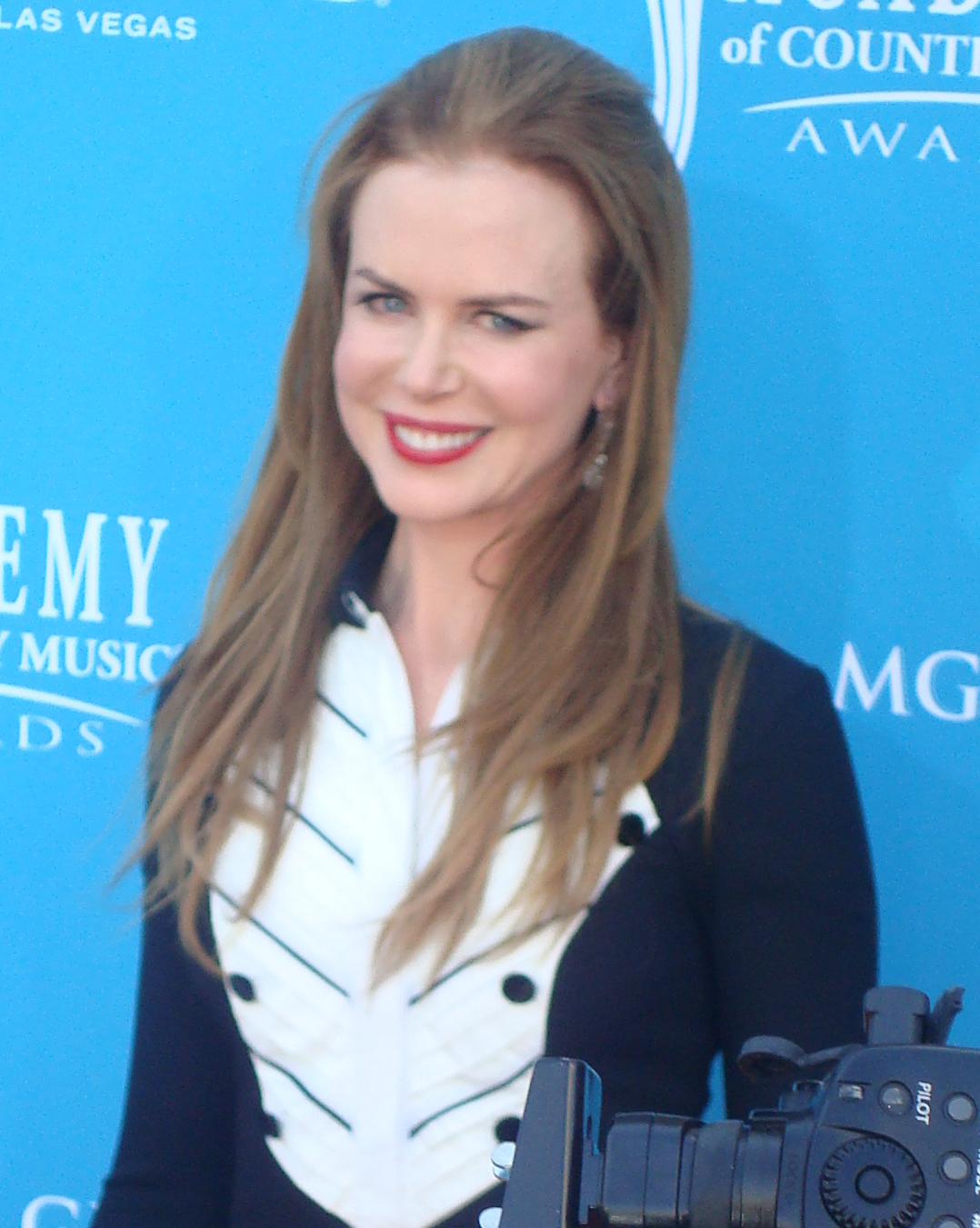 Nicole Kidman at the 2010 Academy of Country Music Awards